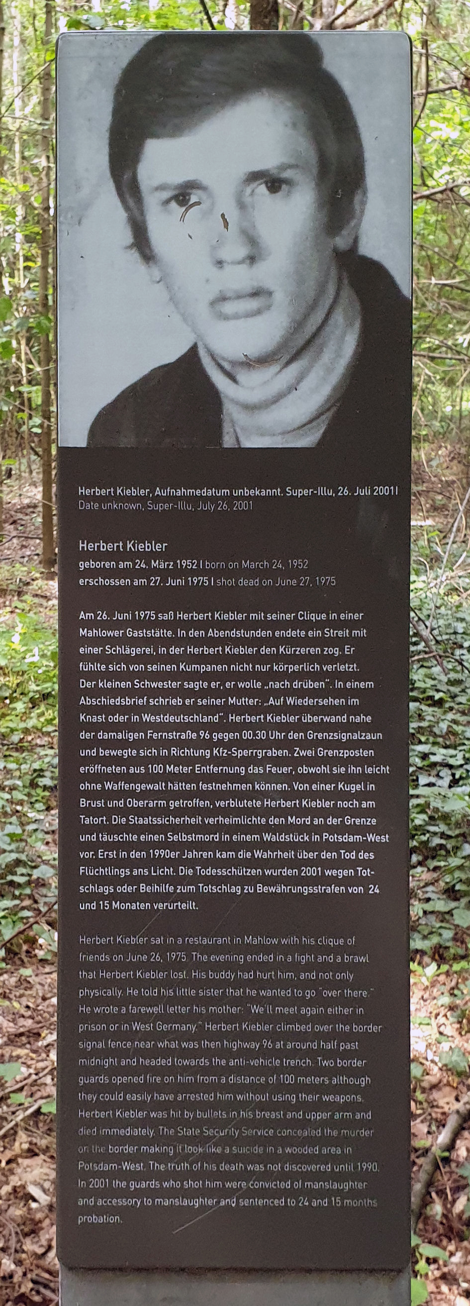 Memorial plaque, Herbert Kiebler, Mauerweg, Blankenfelde-Mahlow, Germany